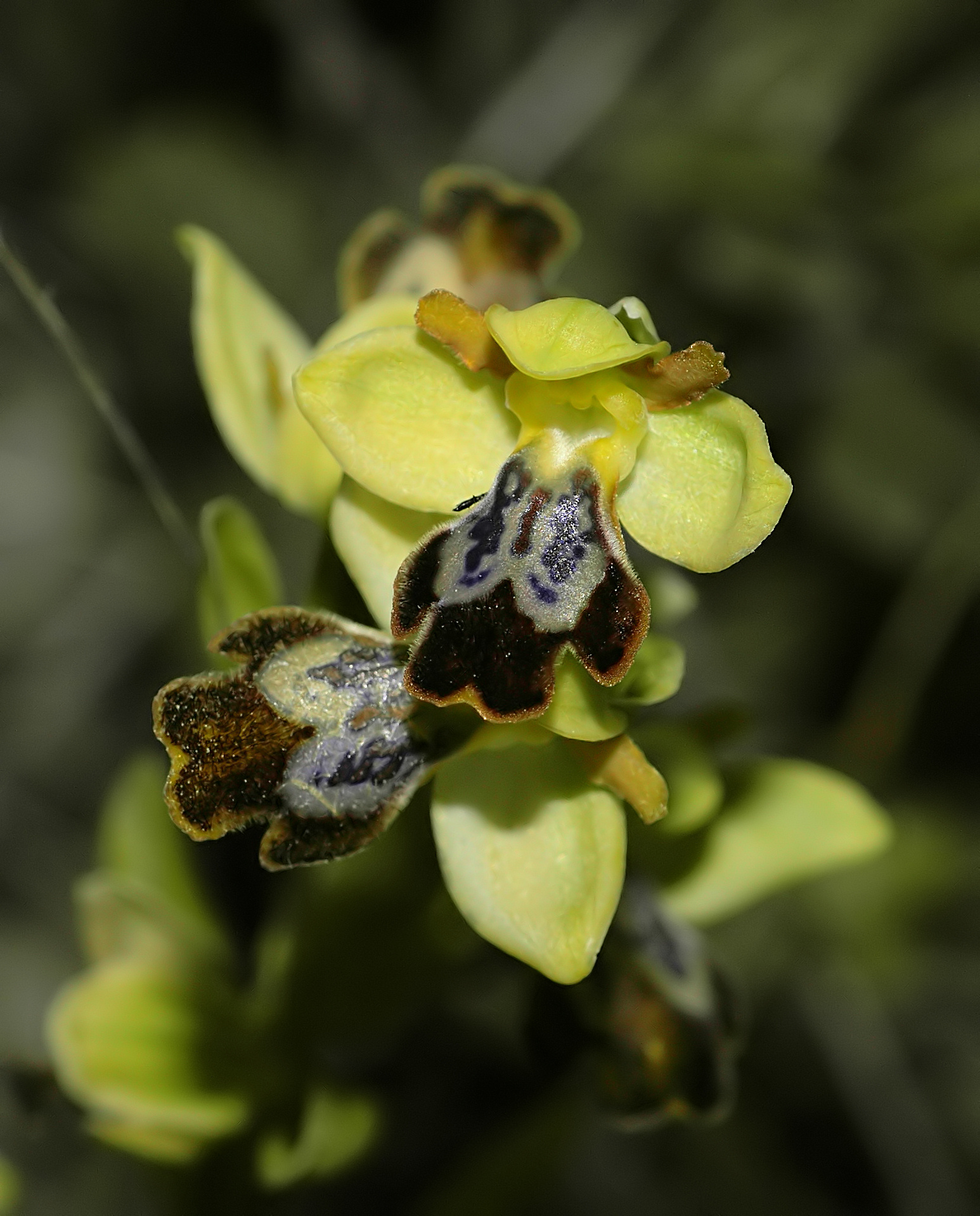 near el Perelló, Catalonia, Spain (location within 1.5 km).